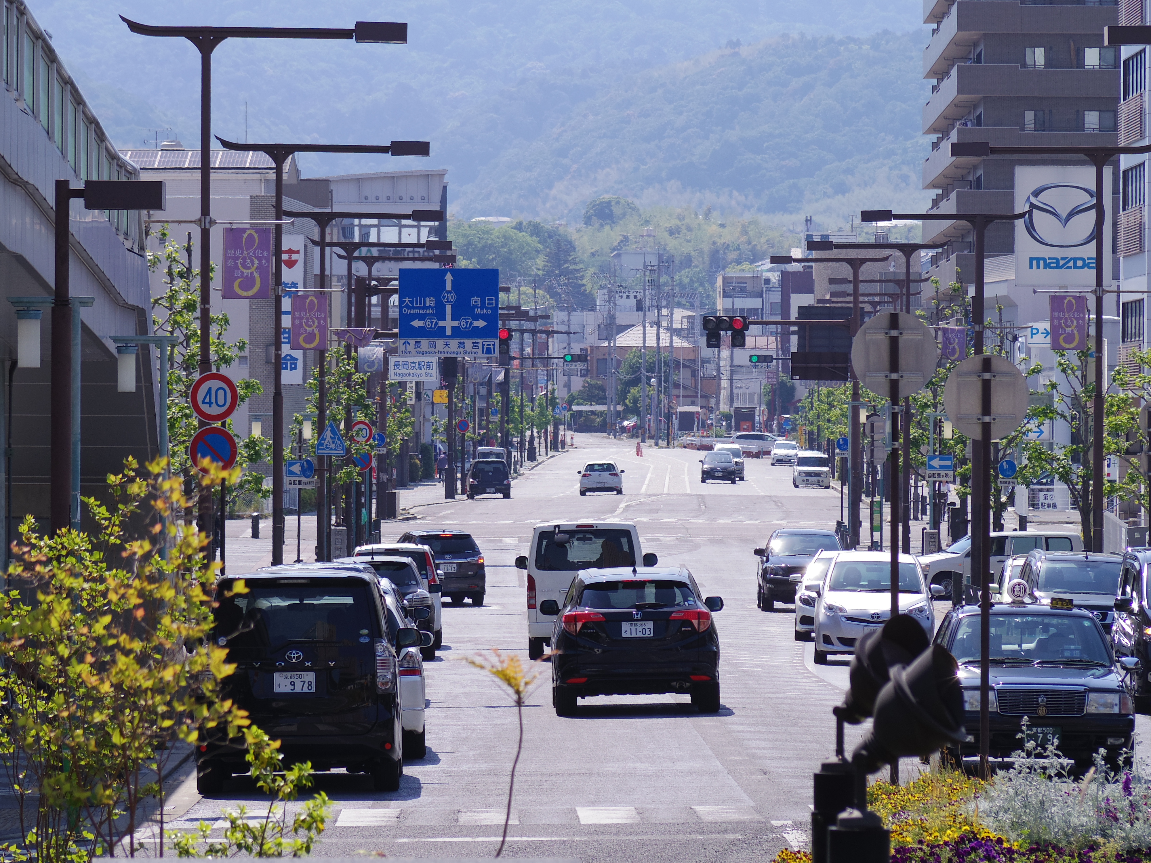 Kyoto prefectural road 210 in Ngaokakyo, Kyoto, Japan